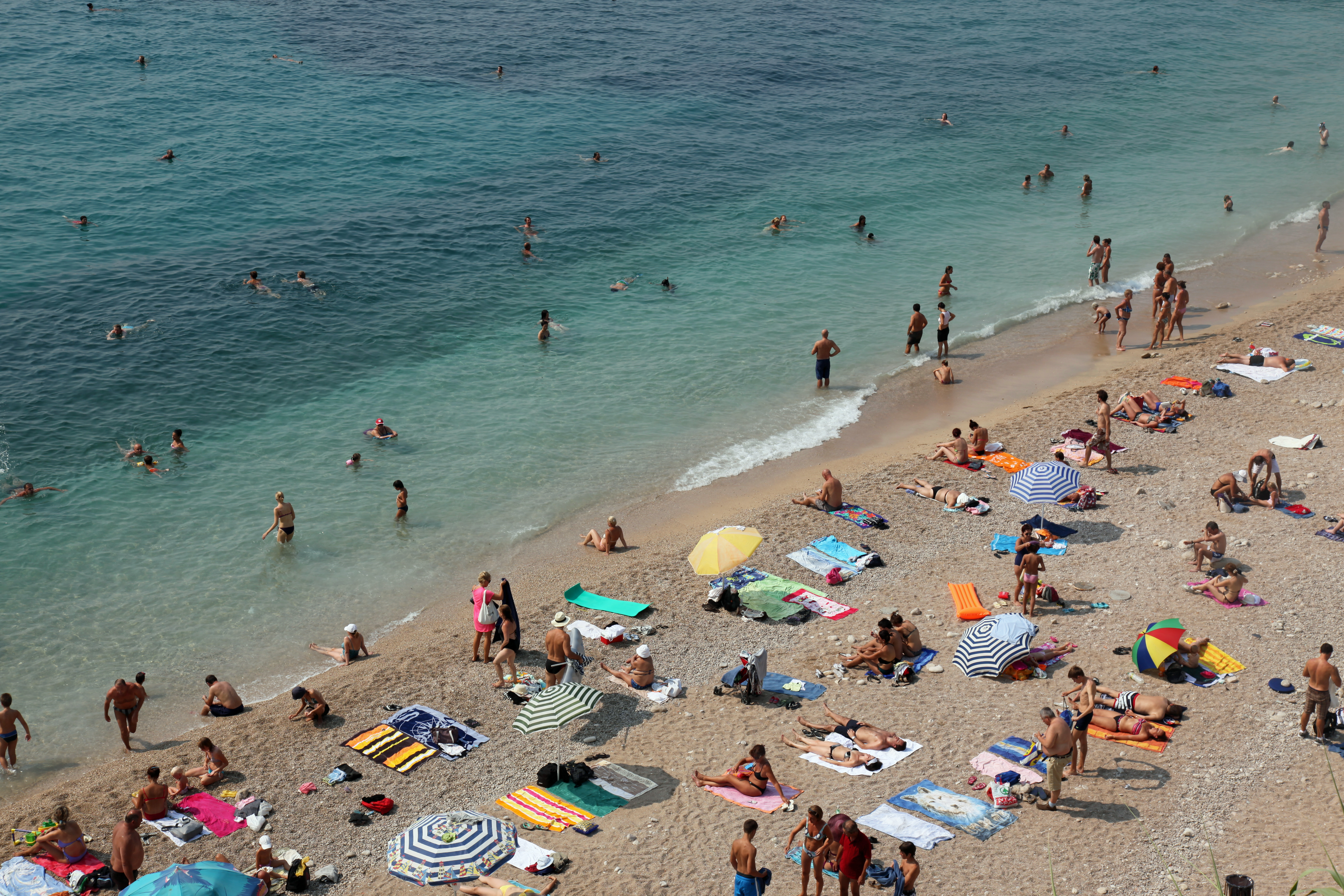 Banje Beach in Dubrovnik.